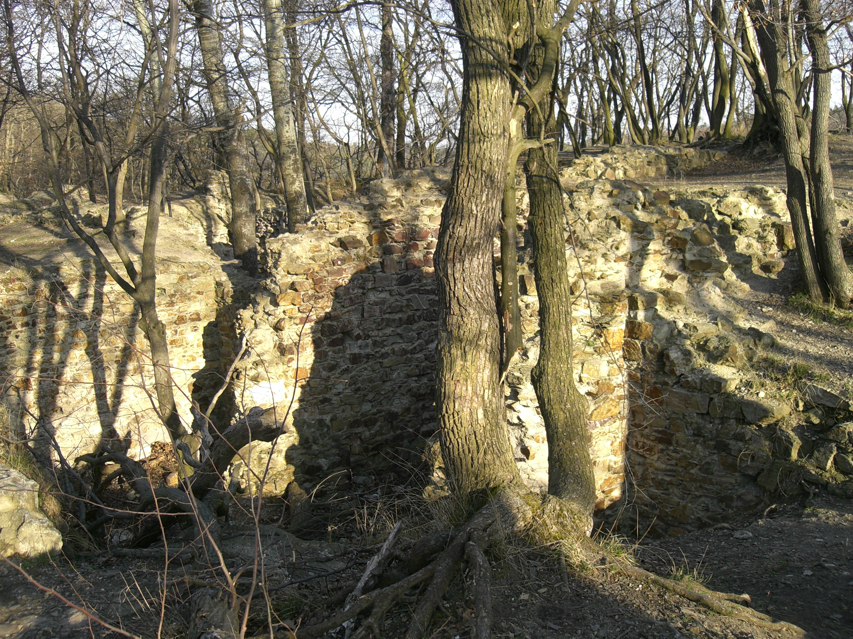 Ruins of Nový Hrad Castle.